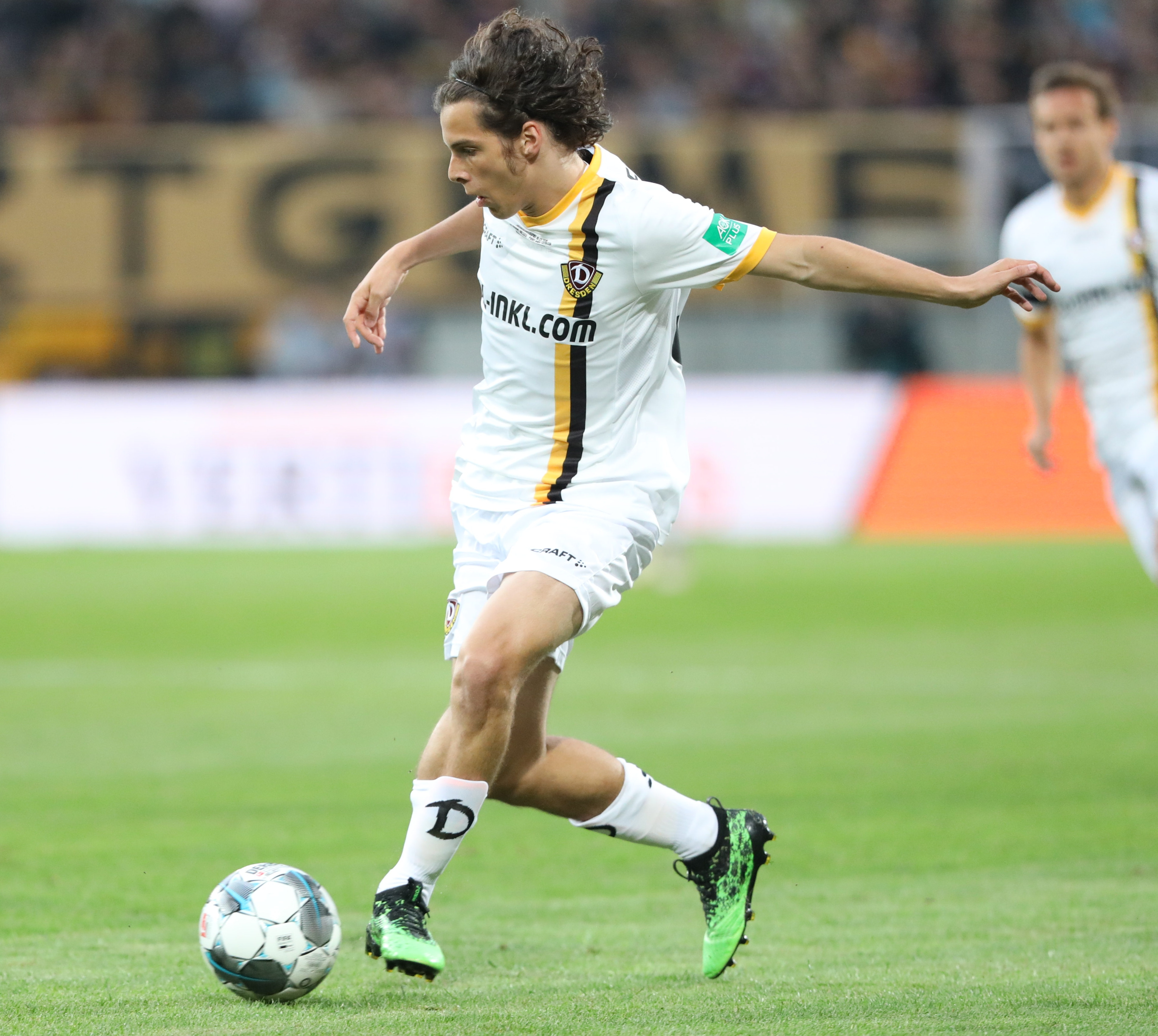 Test game, 17th July 2019: SG Dynamo Dresden vs. Paris Saint-Germain 1:6 (0:3)